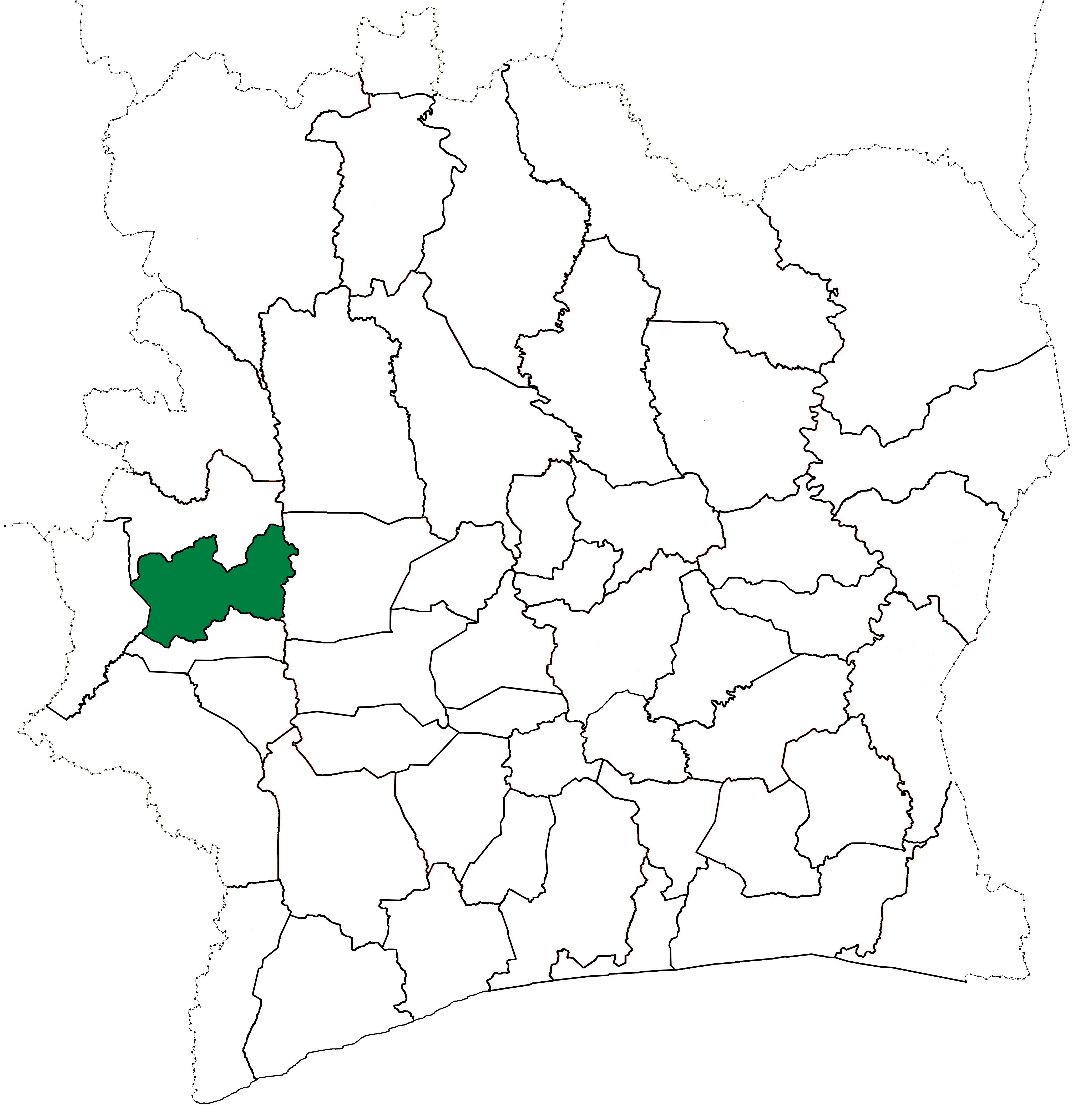 Locator map for Man Department in Côte d'Ivoire in 1988. Man Department kept these boundaries until 2005, but other subdivision boundaries began to be changed in 1995.